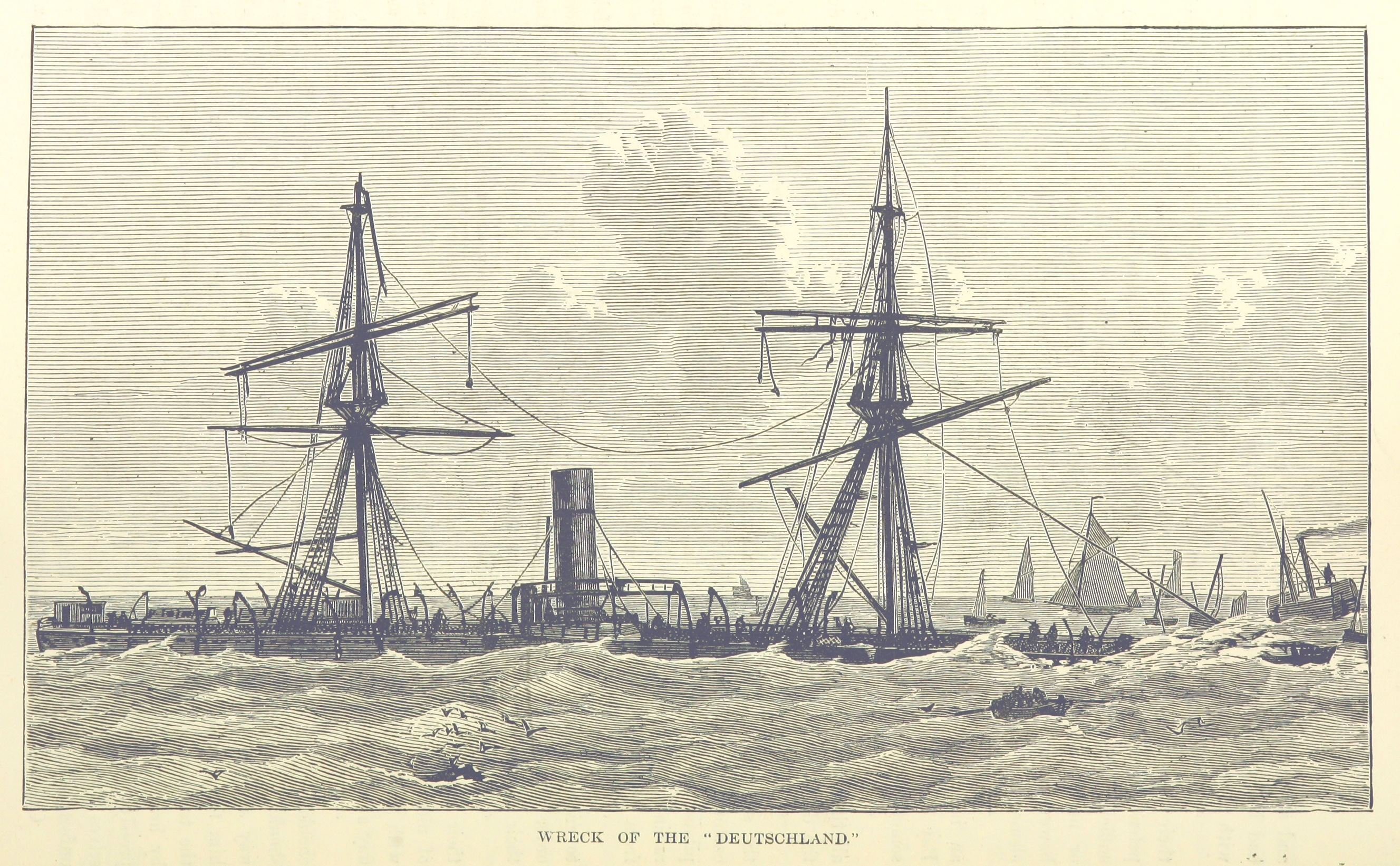 An 1887 illustration of the wreck of the SS Deutschland.